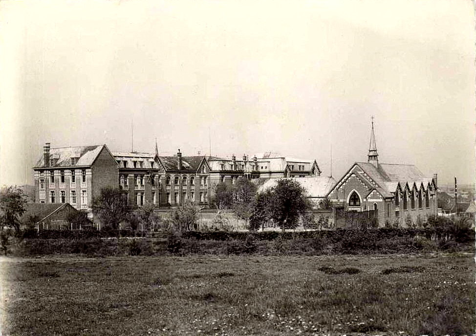 Photograph of “Solesmes' Little Seminary” (1927